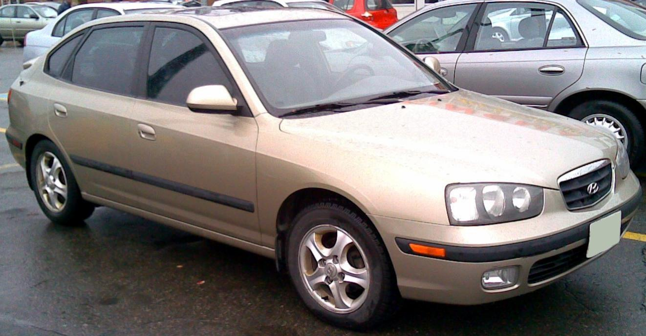 2001-2003 Hyundai Elantra photographed in Montreal, Quebec, Canada.